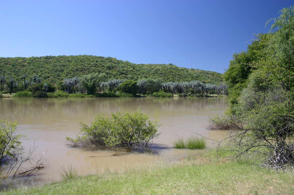 The Kunene river viewed from the Namibian side, near Swartbooisdrift, 4km west of the small village Ongato, in the Angolan Cunene province. Makalani palms fringe the opposite bank.